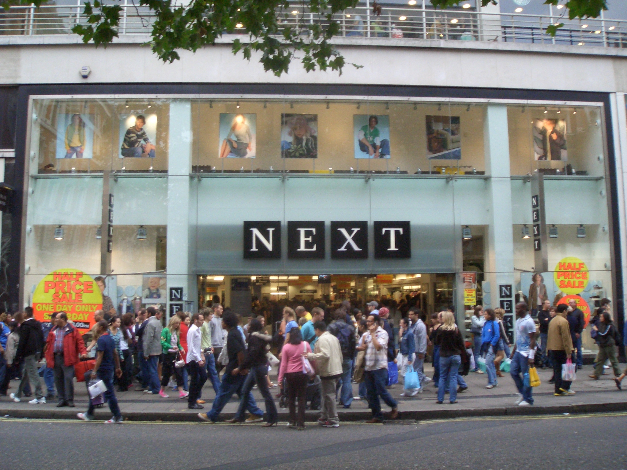 Next, Oxford Street. Photo taken by User:Edward, 24 September 2005.